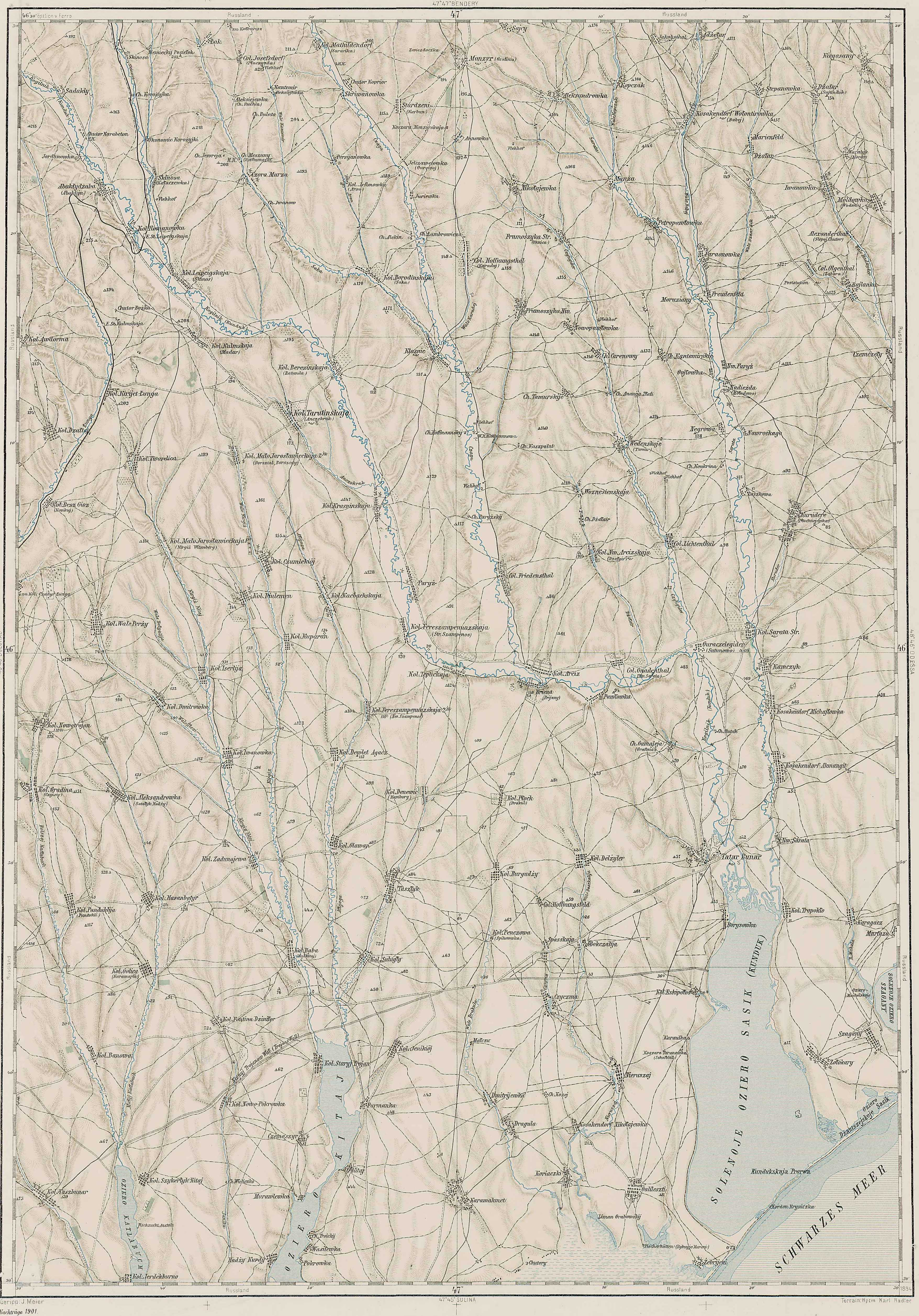 3rd Military Mapping Survey of Austria-Hungary - Tatarhunari